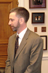 Dan Tangherlini